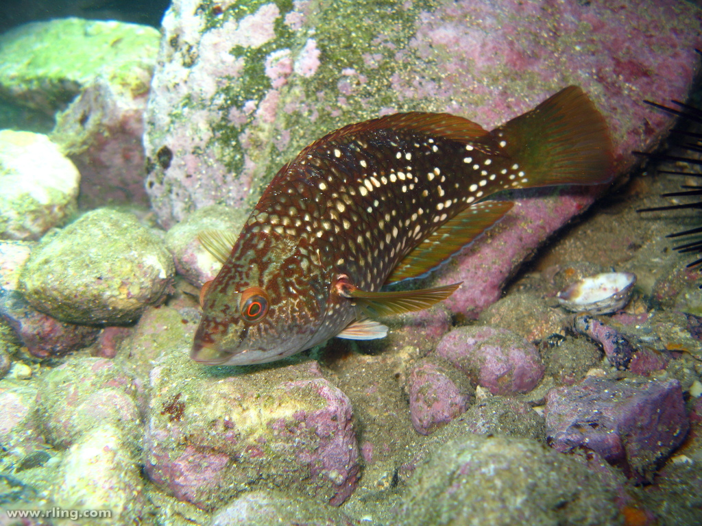 A female Crimson-banded Wrasse (Notolabrus gymnogenis). Fairy Bower, Manly, NSW